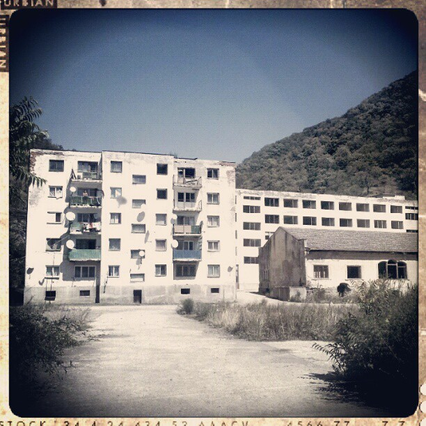 apartment block from former miners' colony Cozla